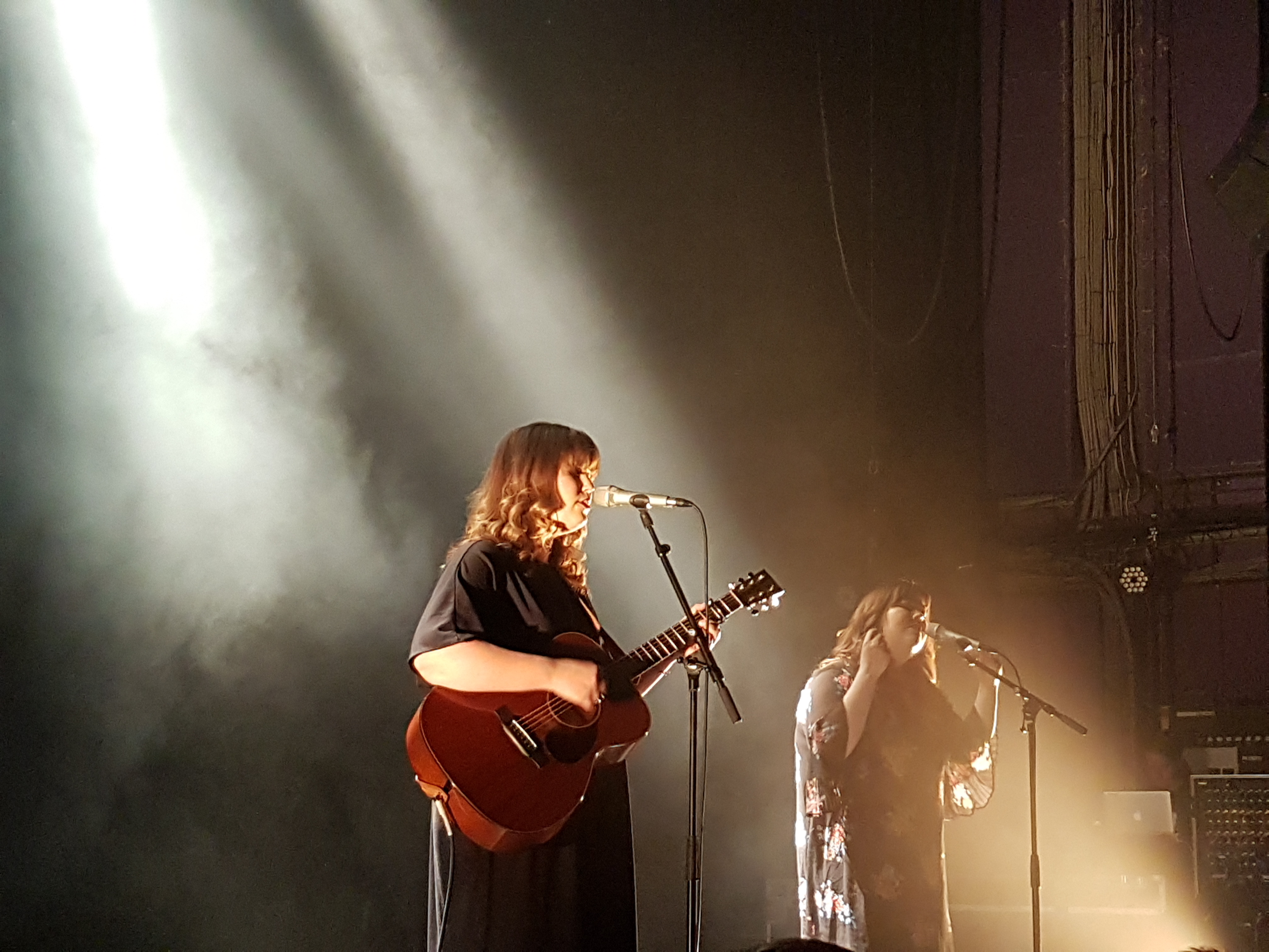 The Secret Sisters hervorming at the Heartland Festival in Hengelo